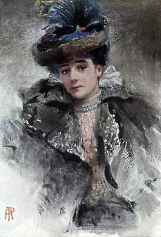 Lady Colin Campbell (Gertrude Elizabeth Blood)(1857-1911)